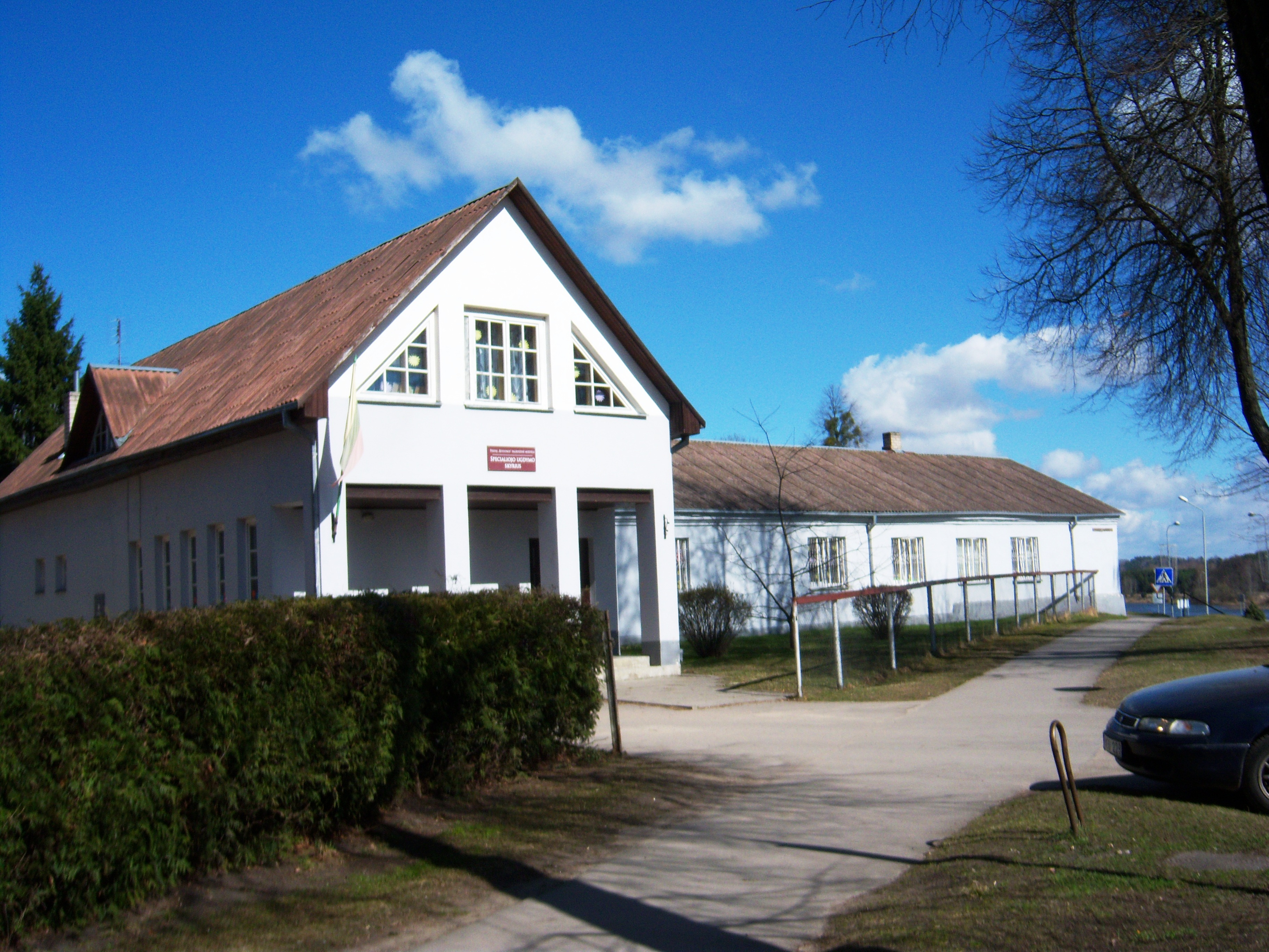 Revuona basic school, Prienai, Lithuania